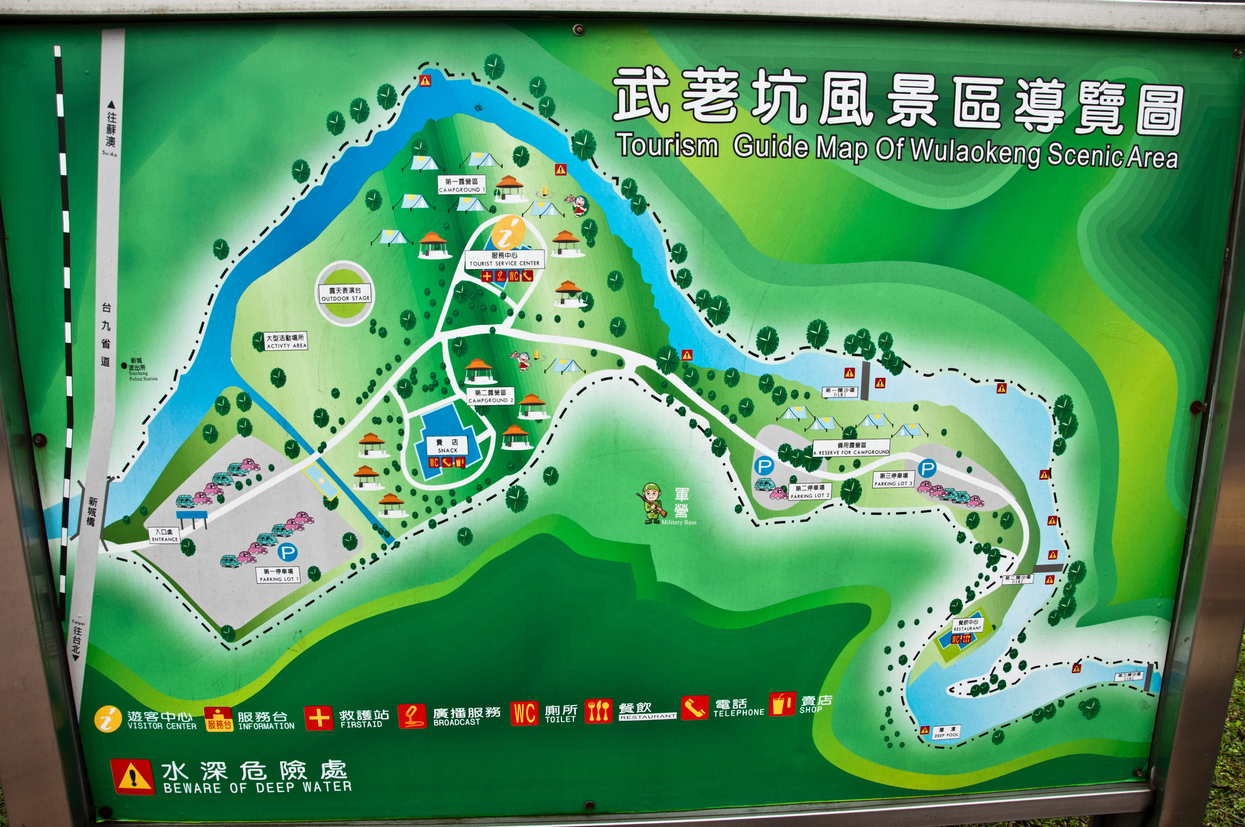 Map of Wulaokeng Scenic Area, Su-Ao Town, Yilan County, Taiwan.